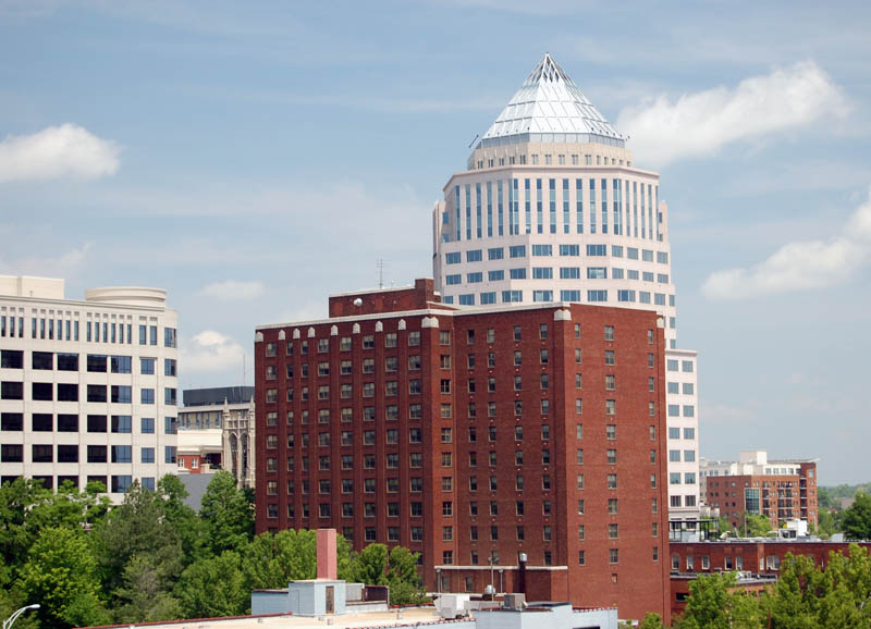 Barringer Hotel, 426 N. Tryon St. Charlotte (Brick building in the foreground. Also known as the Hall House)